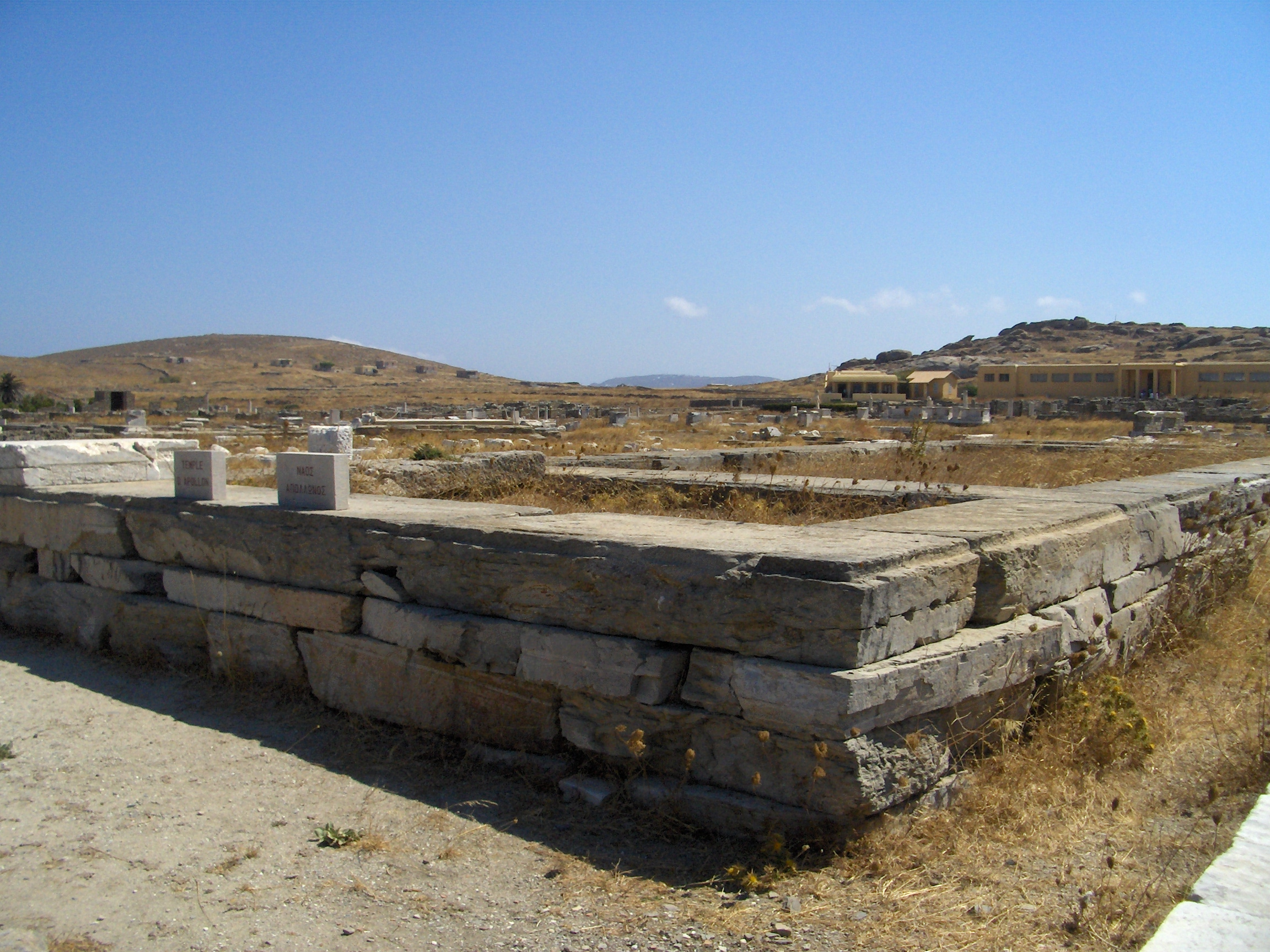 Ruins at the island of Delos.